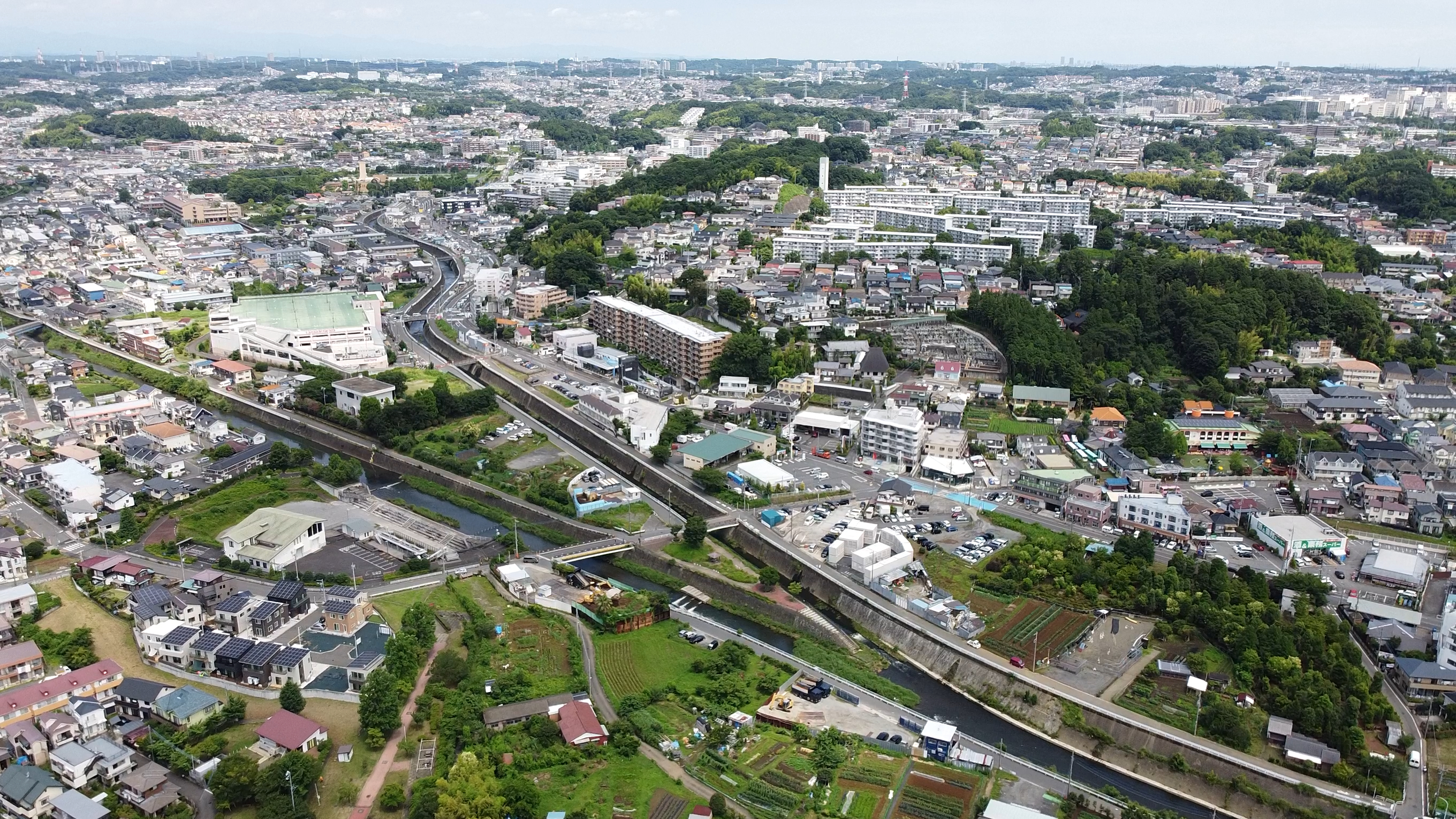 Tsurumi river and Asao river